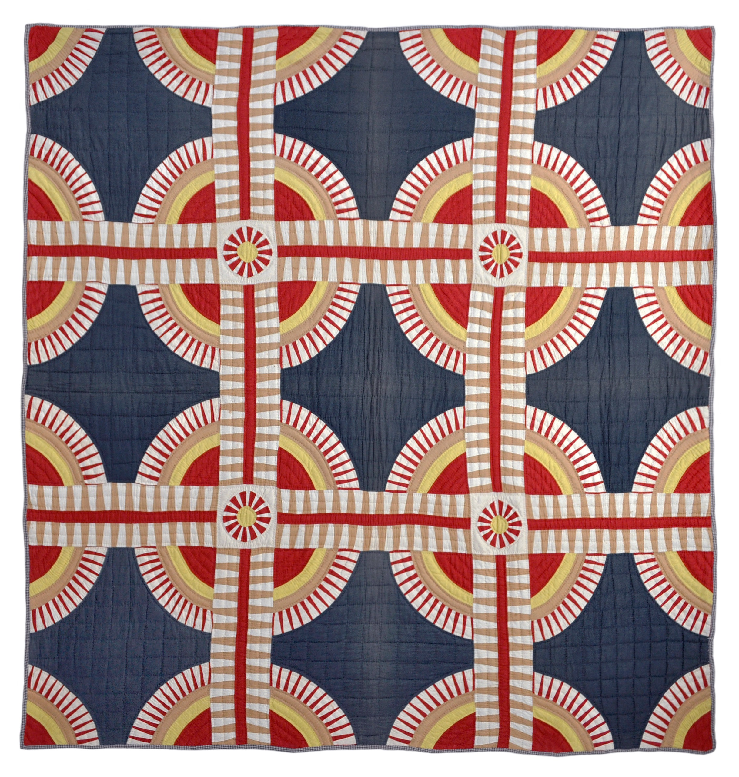 Pieced quilt, cottons, c. 1865, unknown maker, Kentucky, dimensions: 80" x 85". The name of the design, "New York Beauty" came from a 1930s pattern by Mountain Mist. Included in the book "New York Beauty, Quilts from the Volckening Collection" (Quiltmania, France). Collection of Bill Volckening, Portland, Oregon.